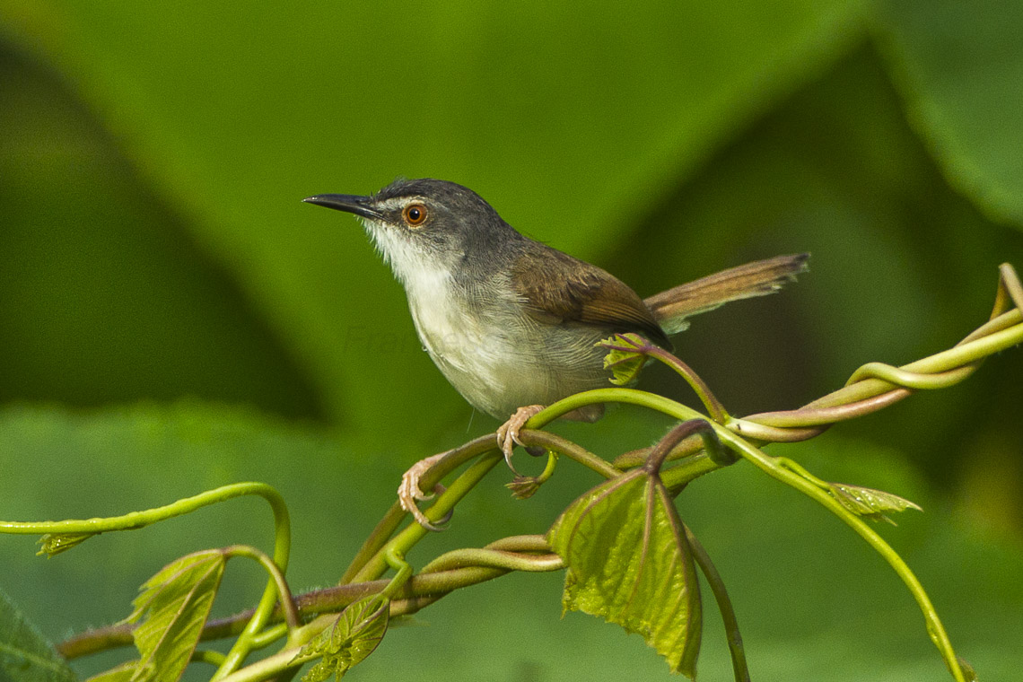 Rufescent Prinia - Thailand_S4E3606